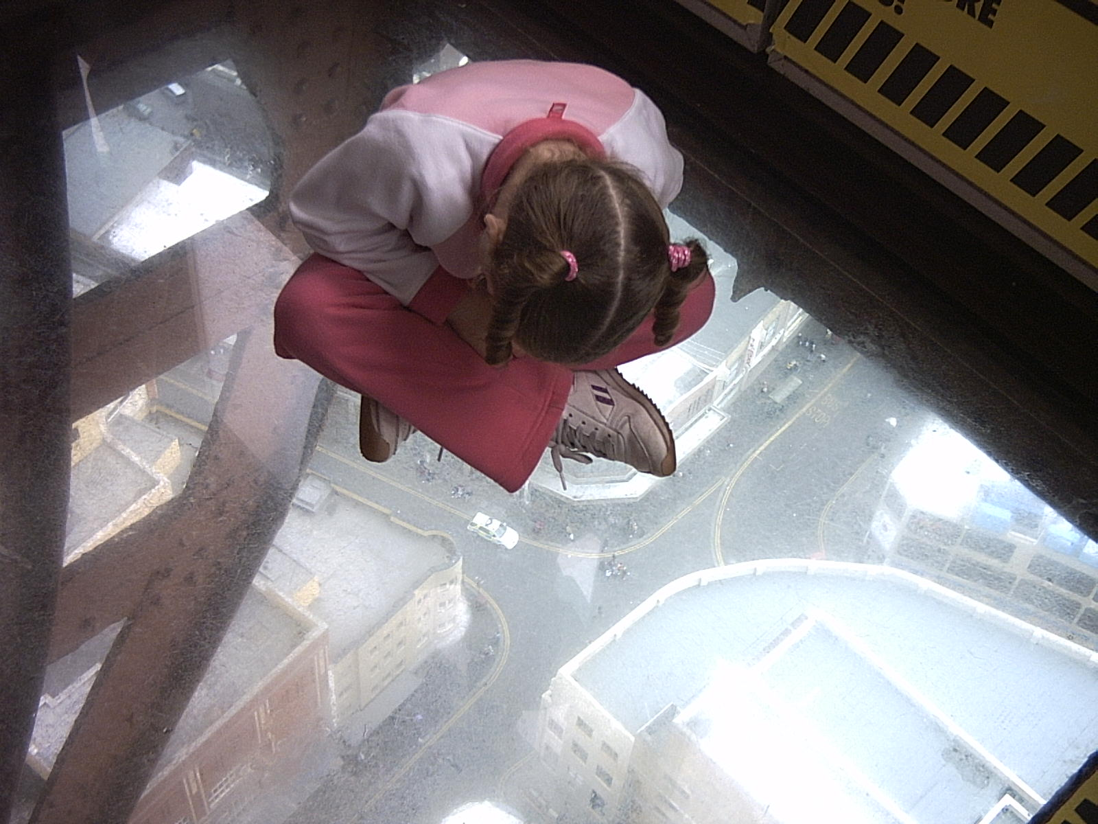 Looking Down. Glass Floor Blackpool Tower. Photo By Myself (Neil Gray)